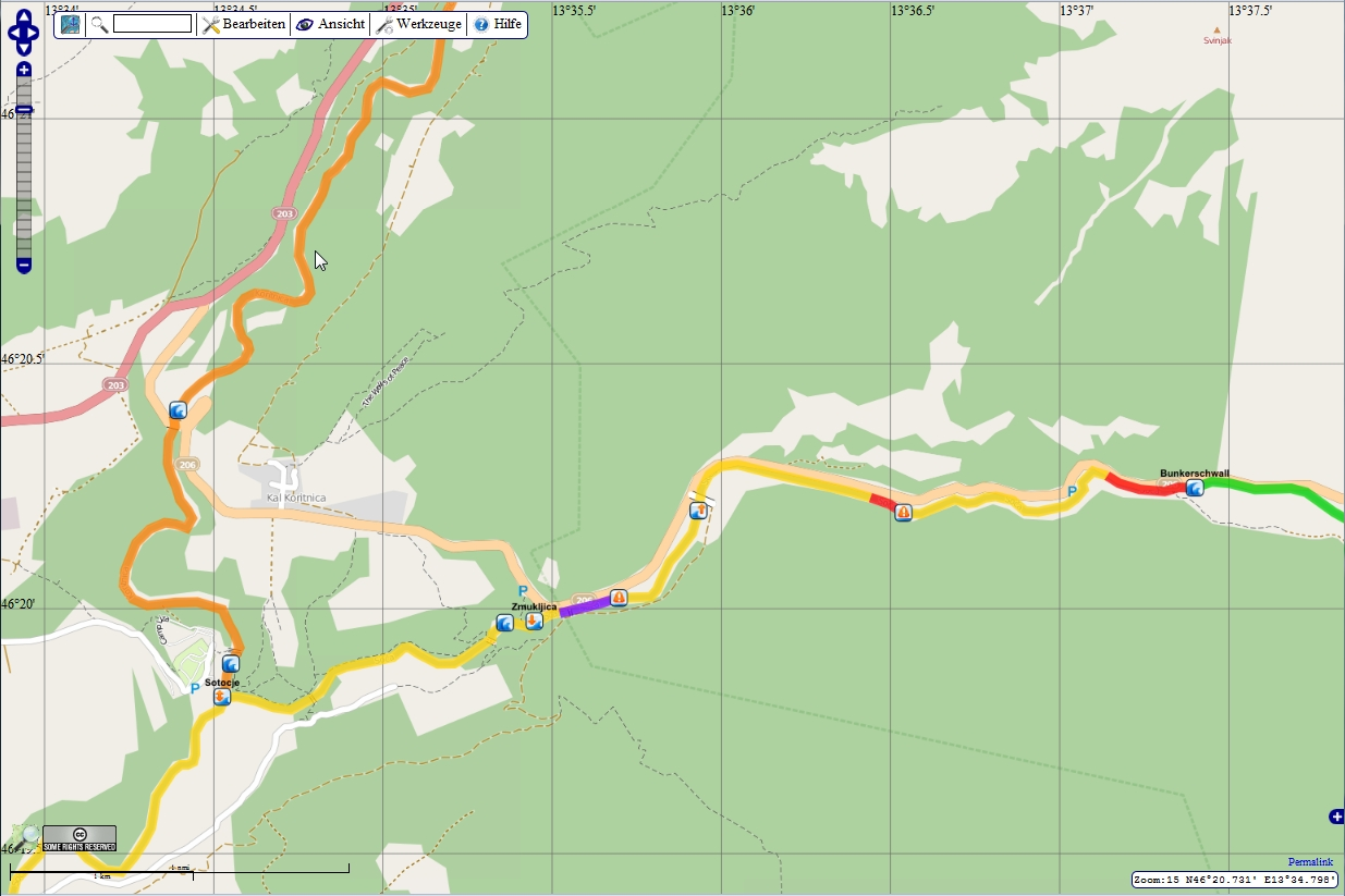 OpenSeaMap - extract forrRiver and canoe map